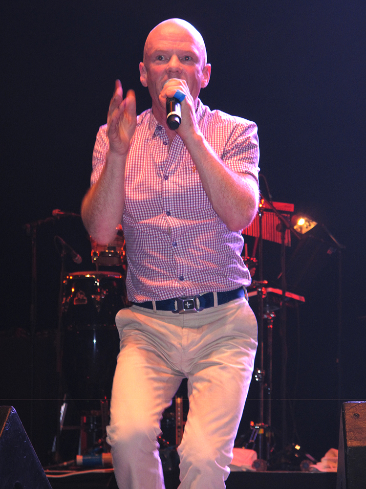 Jimmy Somerville (Communards and Bronski Beat)